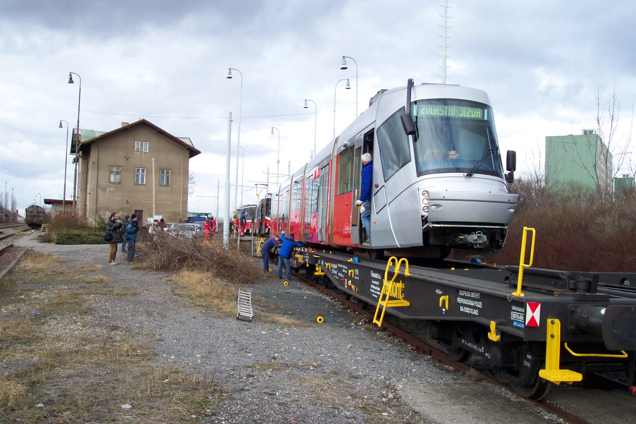 Loading the tram type Škoda 14T on the special rail car in Prague Zličín